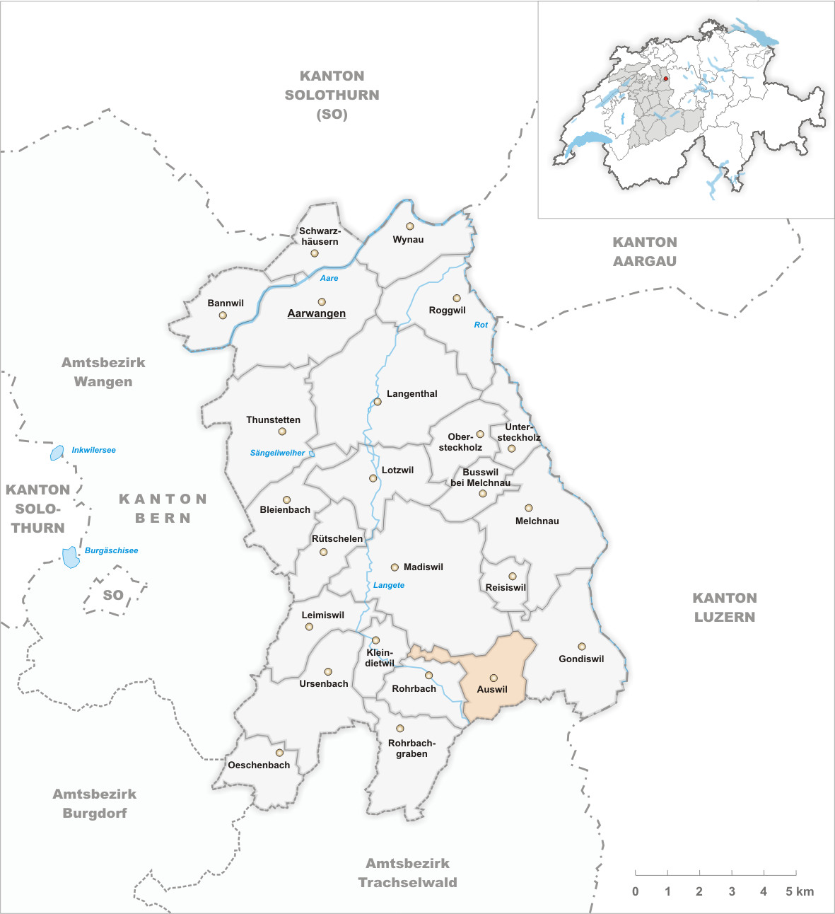 Municipality Auswil